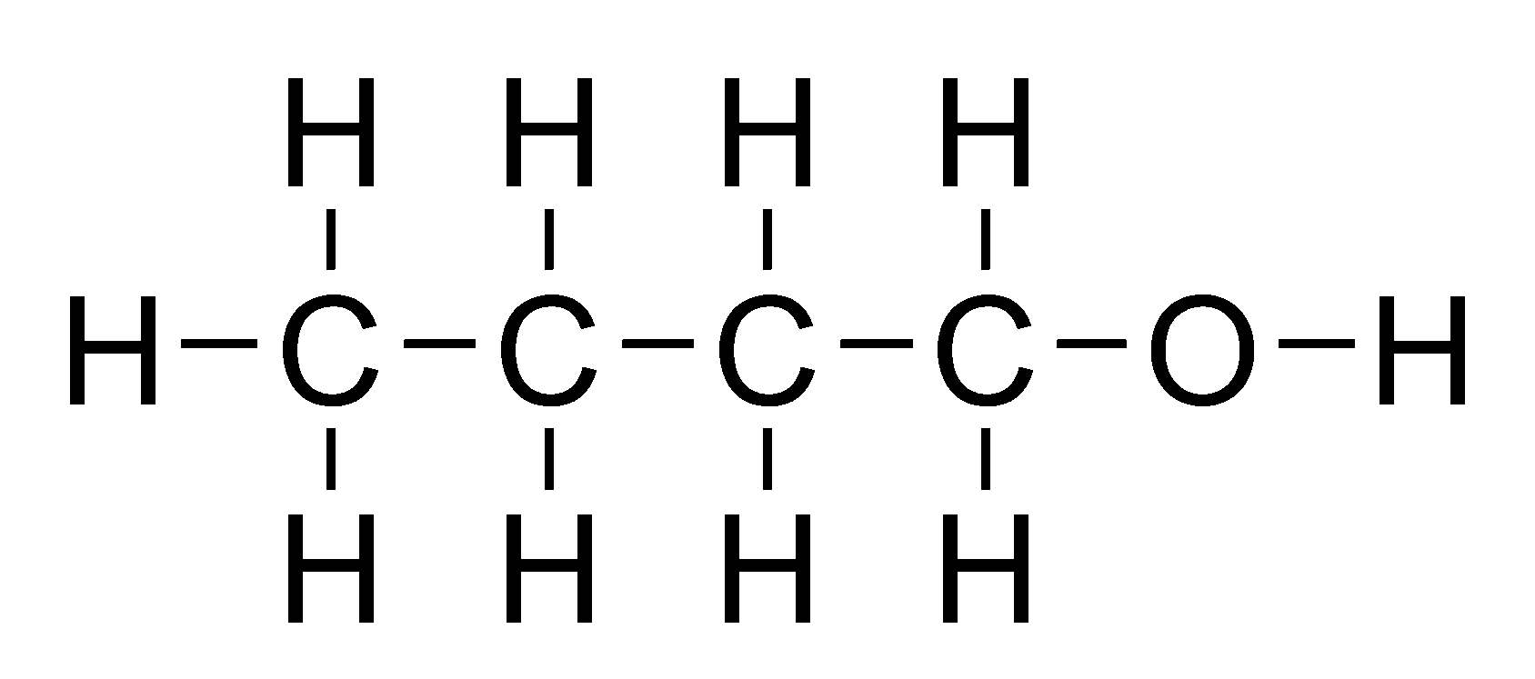 Flat connectivity structure of butyraldehyde